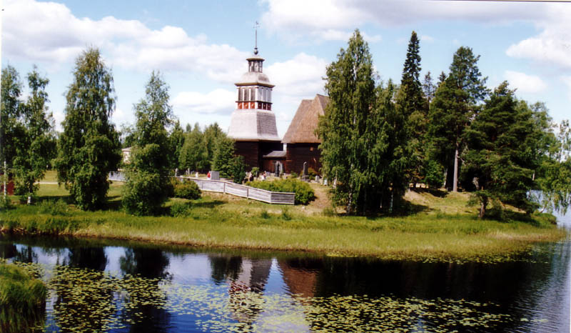 The Petäjävesi Old Church in Finland